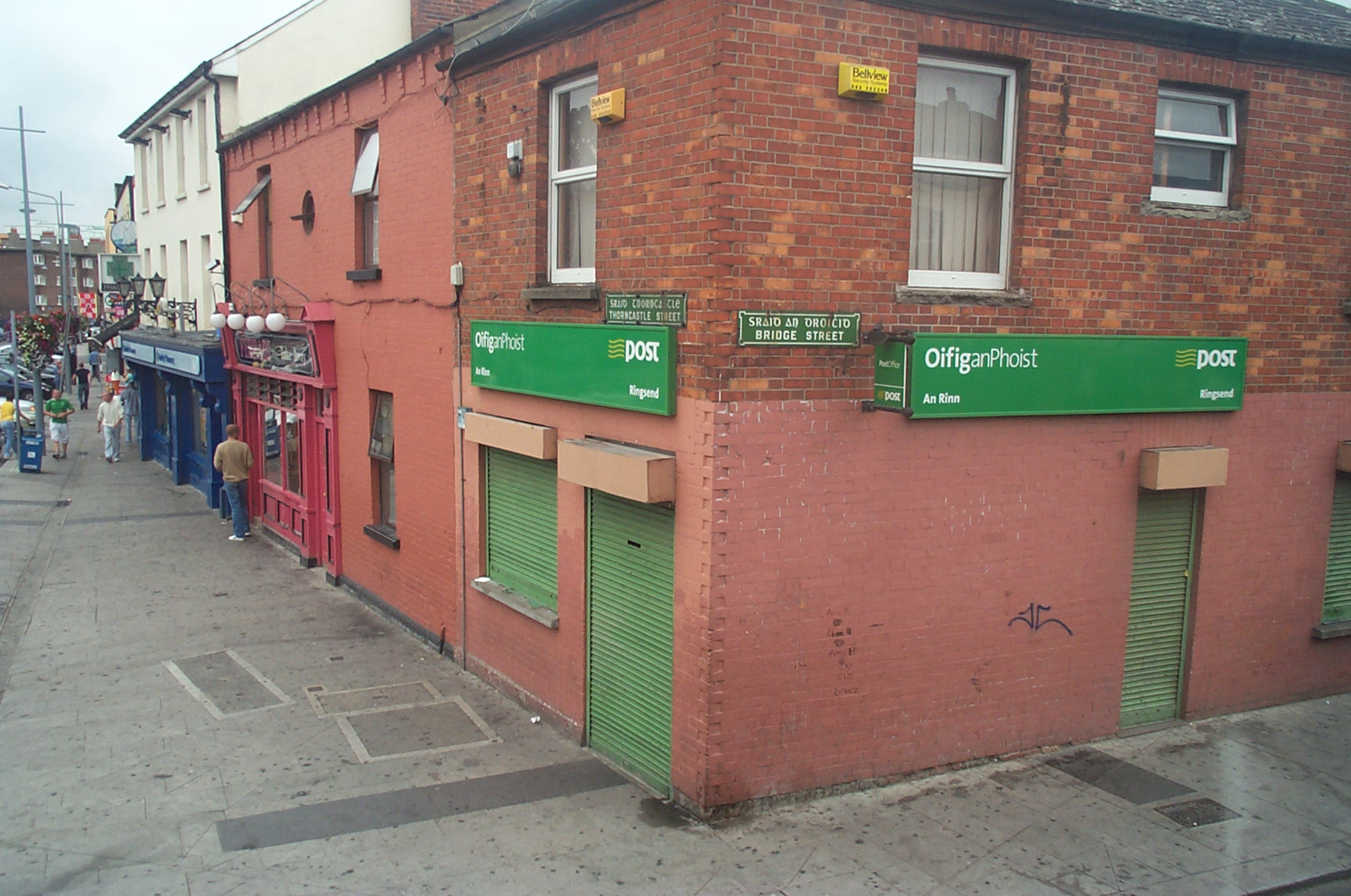 A post office of An Post in Ringsend, Dublin.